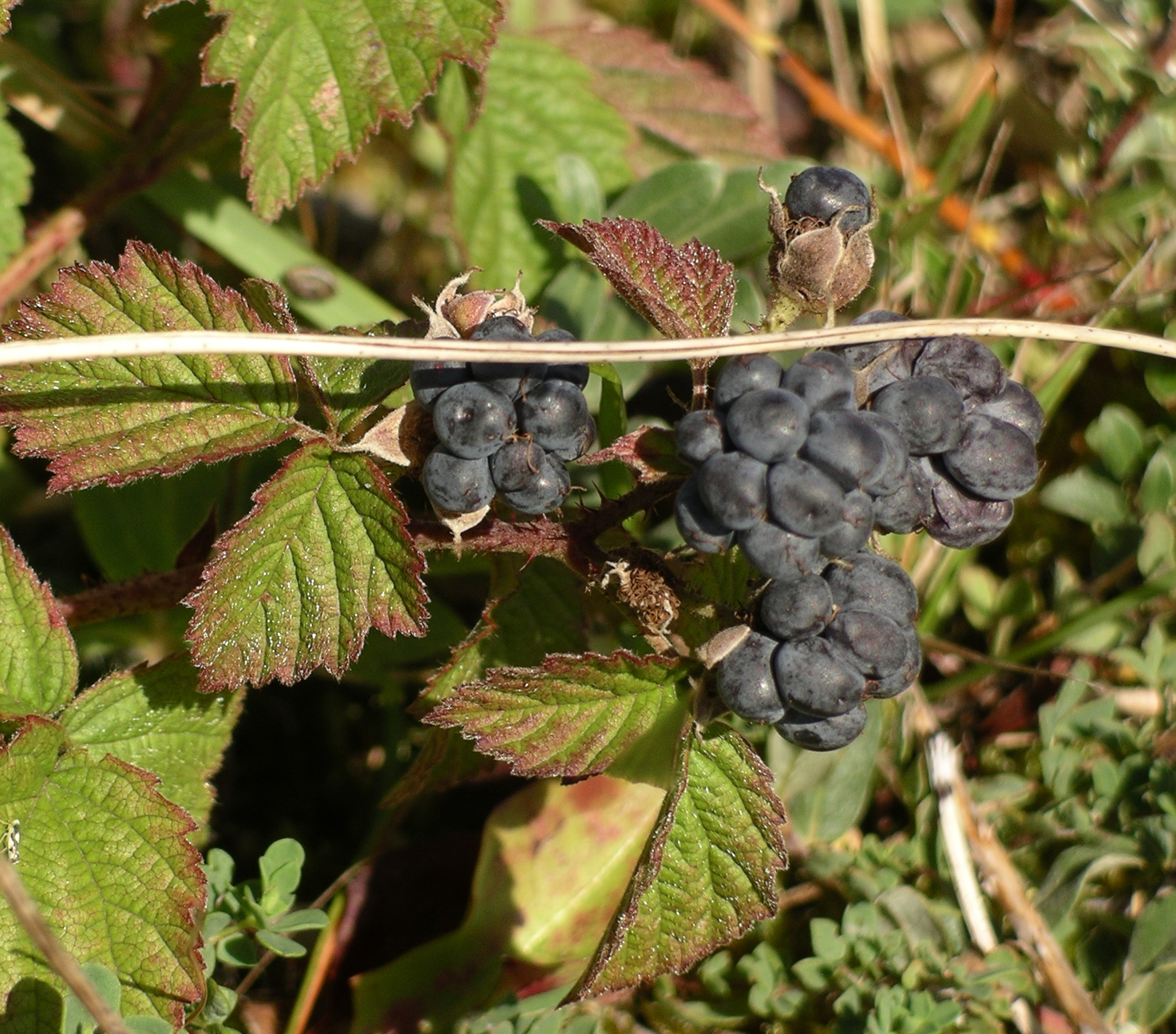 Rubus caesius (Dewberry) growing on Newborough warren